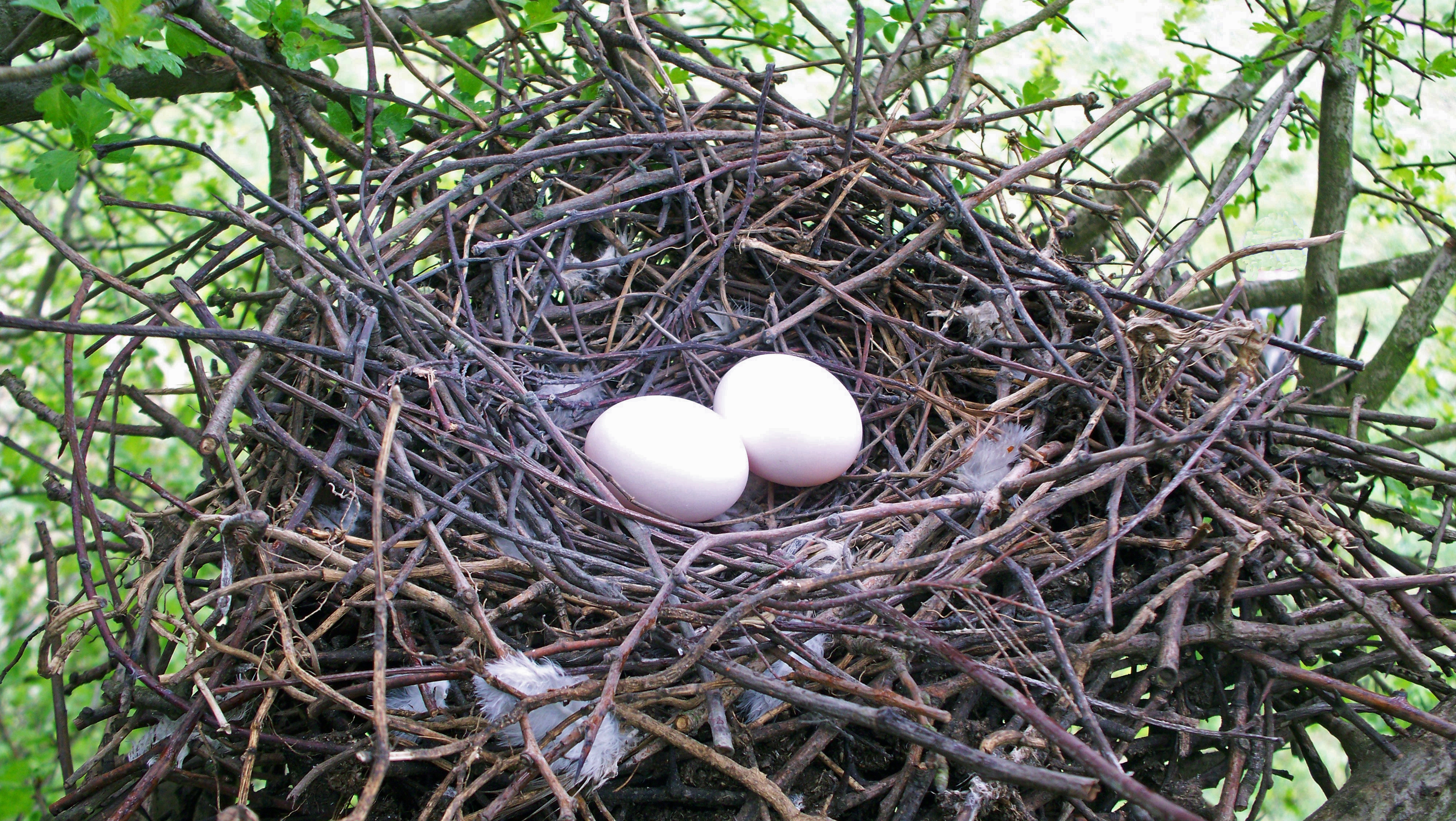 Latin name Columba palumbus Family Pigeons and doves (Columbidae) Overview The UK's largest and commonest pigeon, it is largely grey with a white neck... Where to see them ... When to see them All year round What they eat Crops like cabbages, sprouts, peas and grain. Also buds, shoots, seeds, nuts...